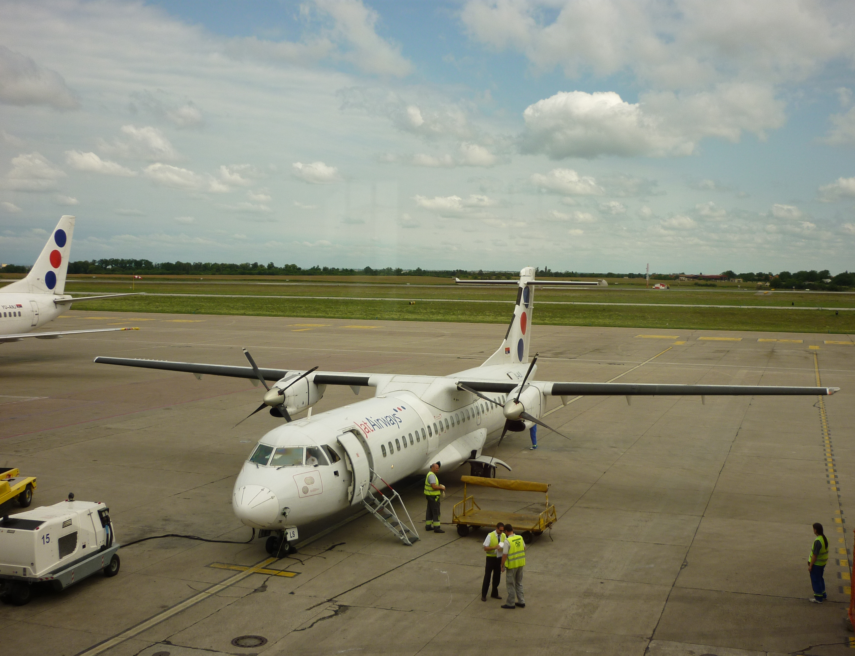 JAT Airways Aerospatiale ATR-72-201 YU-ALS at Belgrade Airport, Serbia.